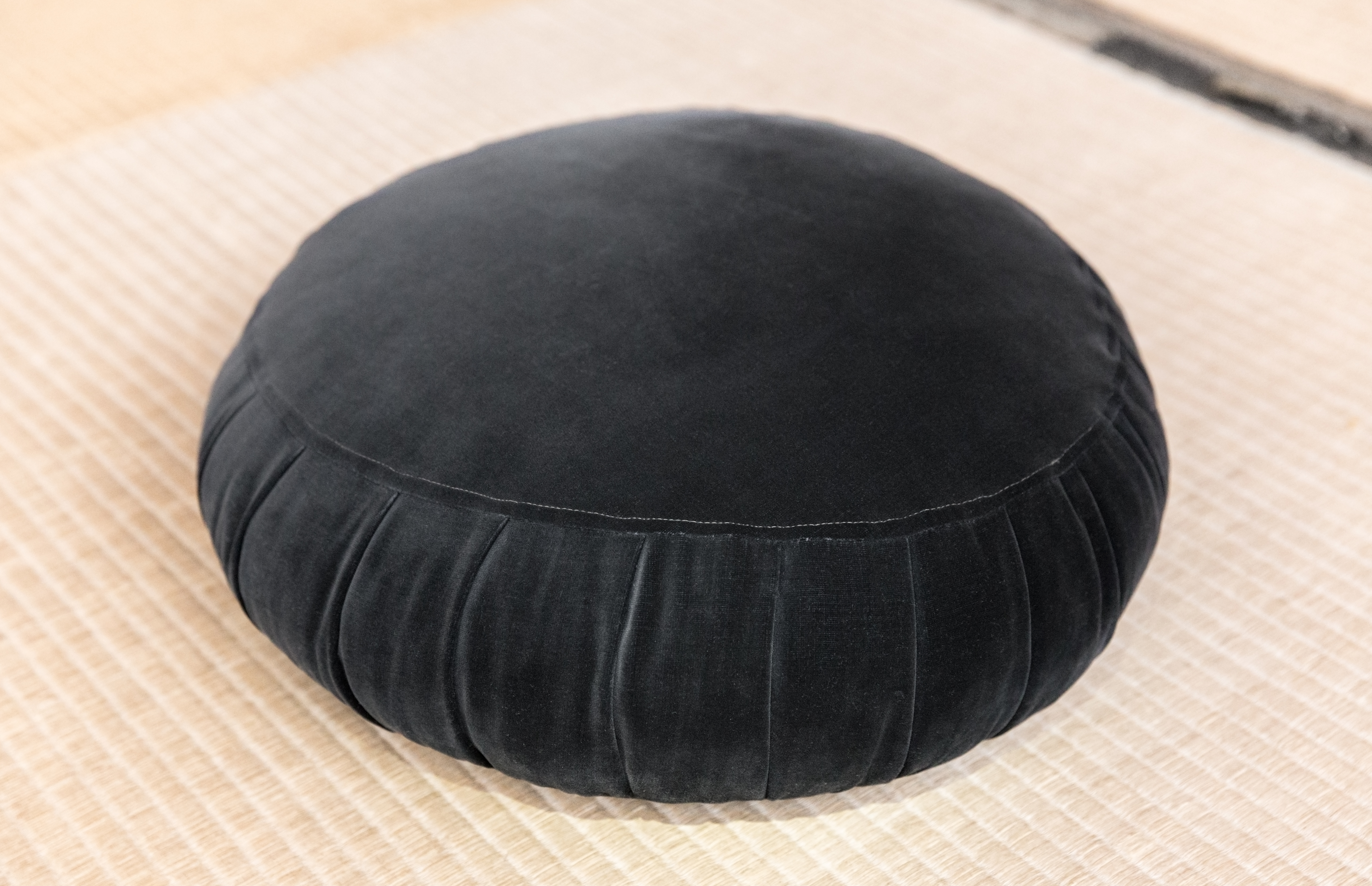 Black velvet zafu used in Antai-ji zen monastery, Japan.